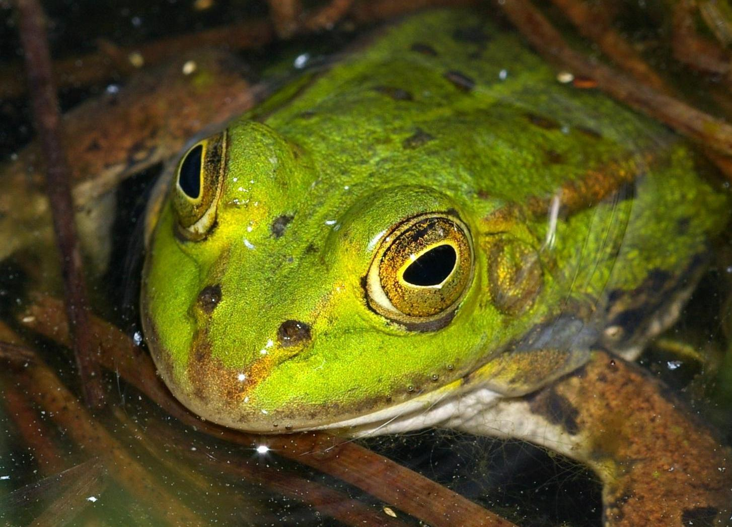 Frog looking at you. (Close-up of a male Pool Frog, Pelophylax lessonae, sitting in a swampy pond.)